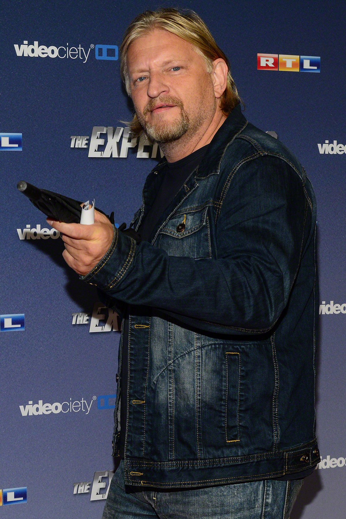 Frank Kessler attend the German premiere of the film "The Expendables 3" at Residenz cinema on August 6, 2014 in Cologne, Germany.